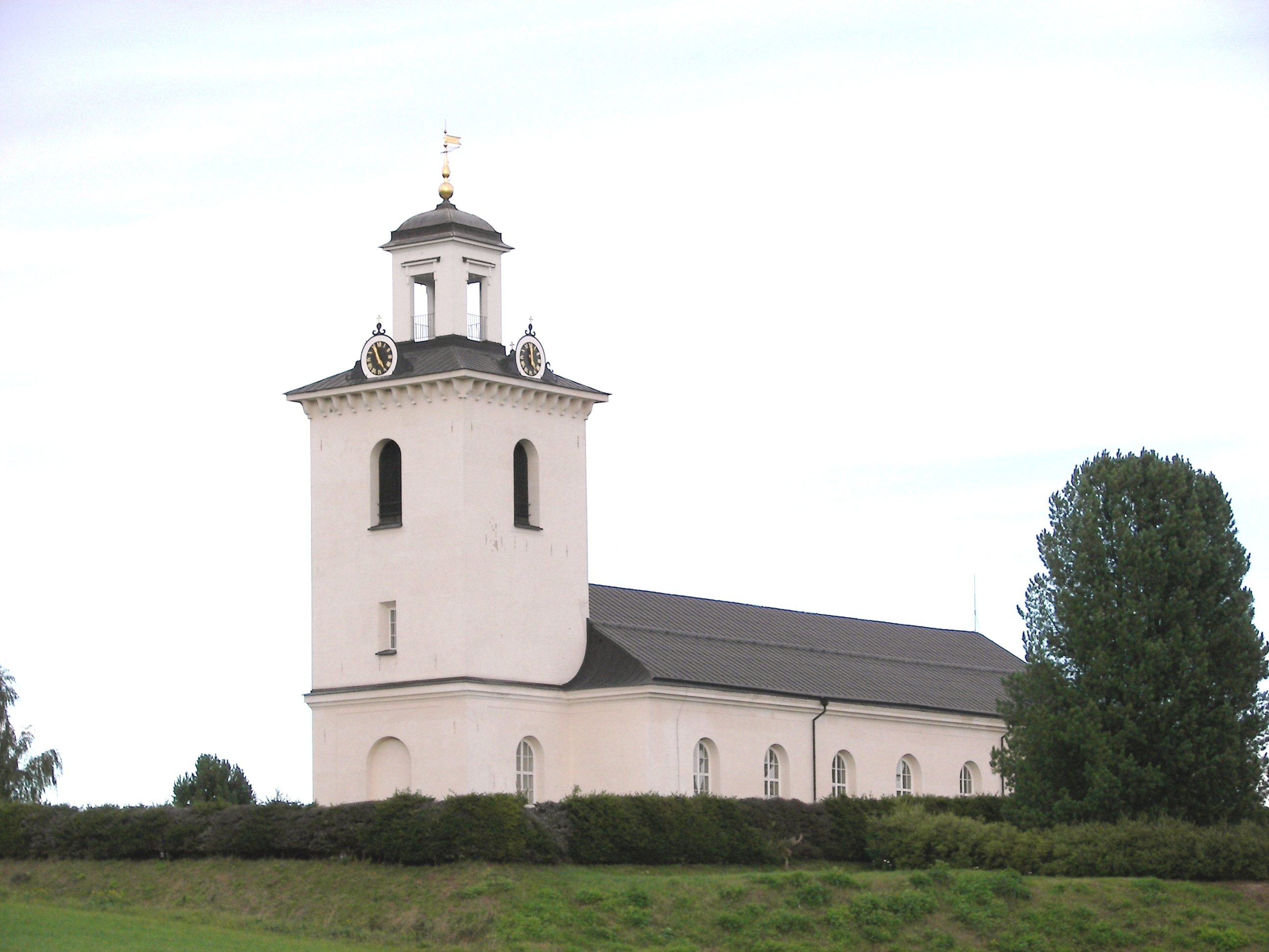 Nora church, Sweden.